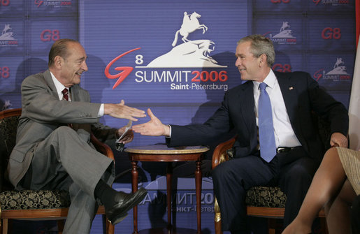 President George W. Bush meets with President Jacques Chirac of France in a bilateral meeting during the G8 Summit in Strelna, Russia, Sunday, July 16, 2006.